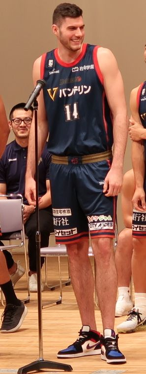 Yokohama B-Corsairs Japanese professional basketball team 2019-20 Player 14 György Golomán